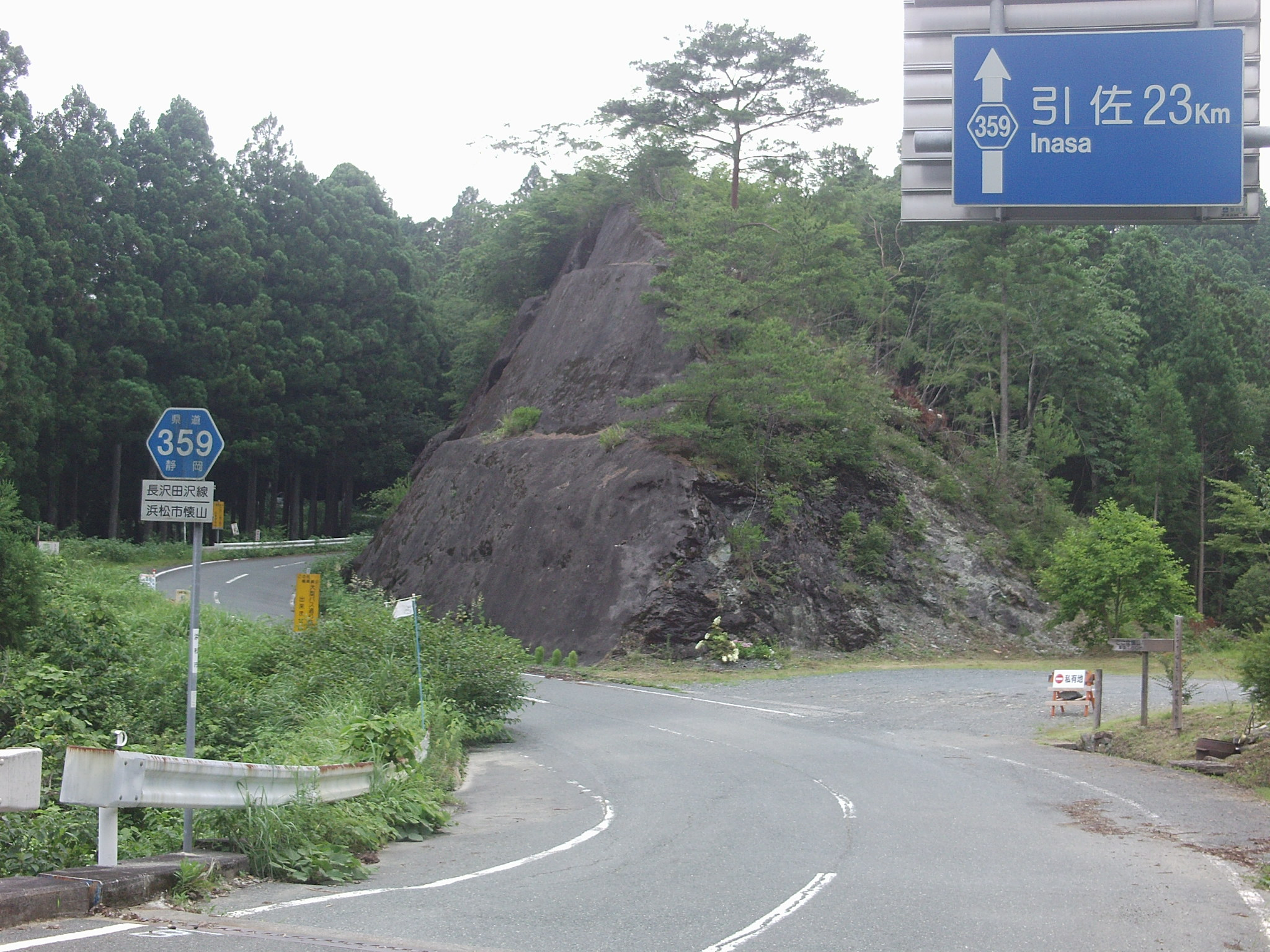 Shizuoka prefectural road No.359 in Futokoroyama, Tenryu-ku, Hamamatsu, Shizuoka.